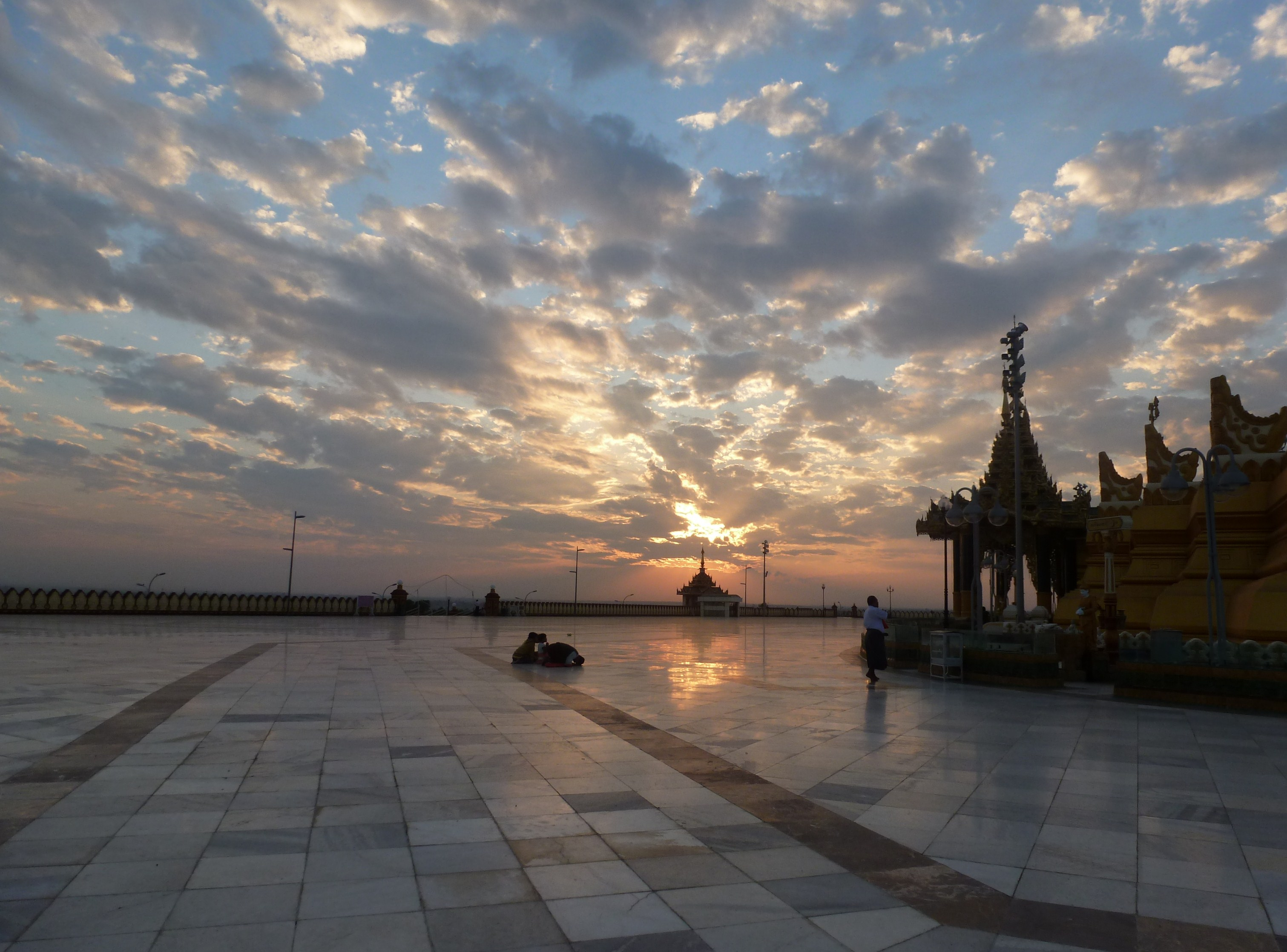 The plaza of the Uppatasanti Pagoda at sunset